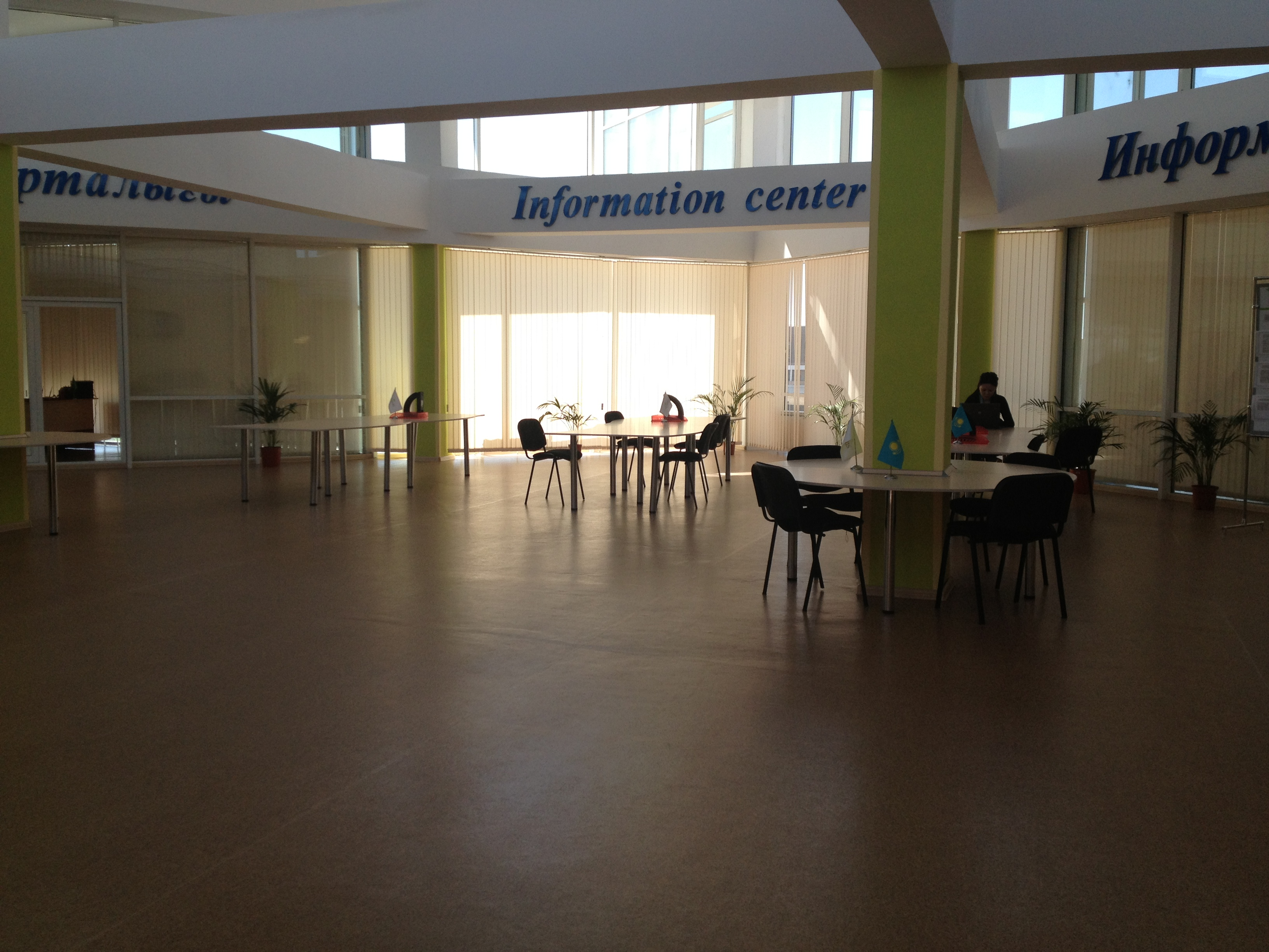 Ақпаратық орталық Информационный центр Information centre